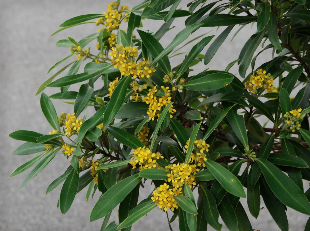 Tristaniopsis laurina. An attractive small tree in the family Myrtaceae. A good display of small yellow flowers. Very hardy. An excellent street tree. Native to Australian rainforest. Syn. Tristania laurina.